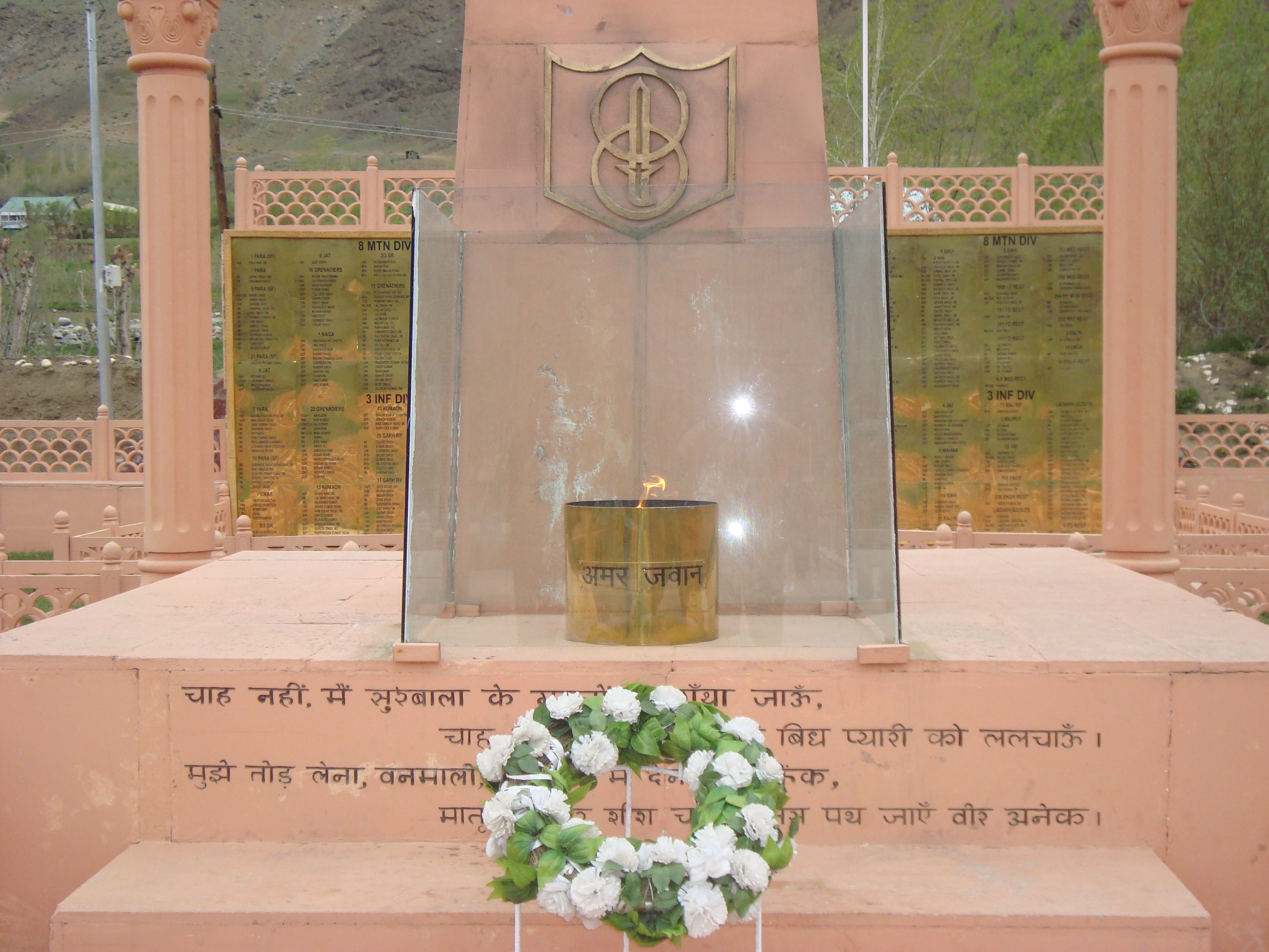 On the background is the name of soldiers who died during the battle, and a memorial for them in the front.